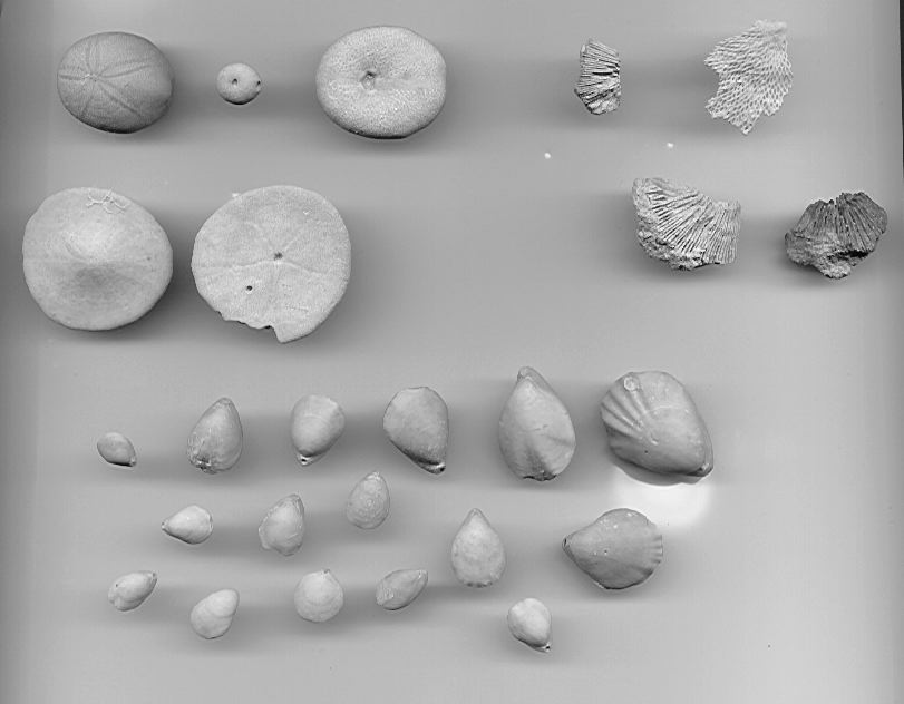 Various fossils from a limestone deposit at Castle Hain, North Carolina. Collected and photographed by me, User Debivort, 2001.